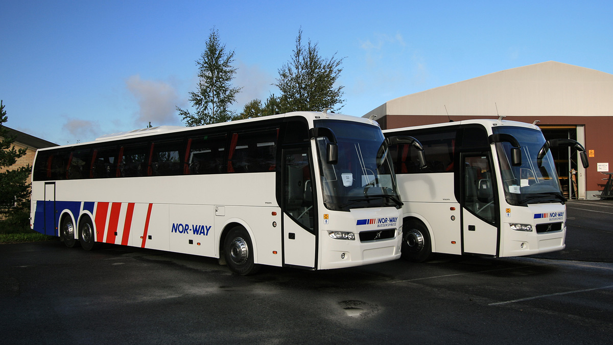 Two new coaches for Haukeliekspressen at the factory in Lieto, Finland.